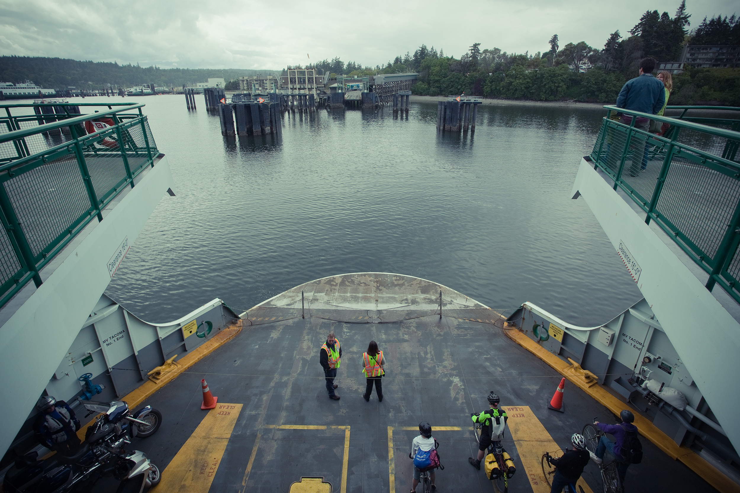 Bainbridge Island is home to the Washington State Ferry fleet. Daily passenger and vehicle service runs from the Bainbridge Island terminal to Coleman Dock in Seattle, Washington.